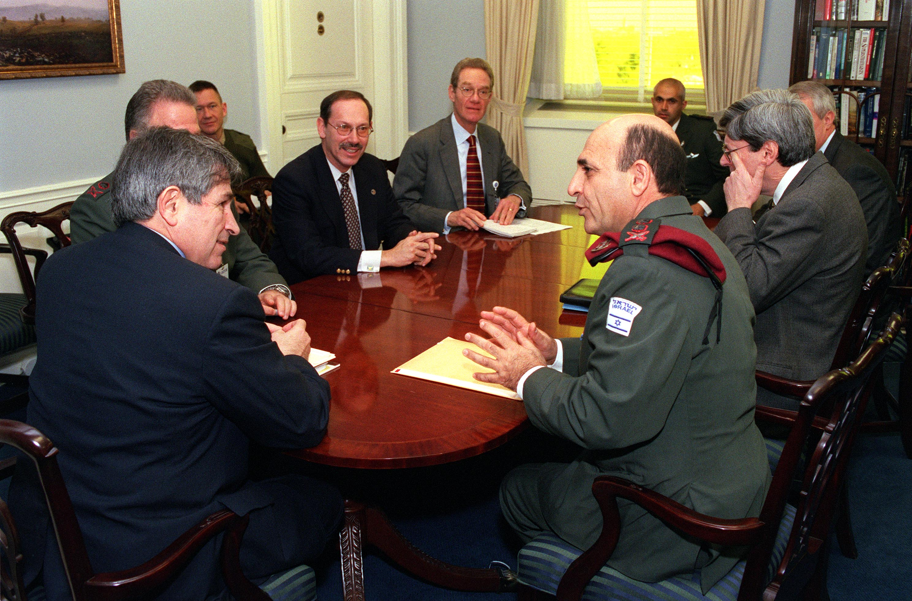 Israeli Chief of Defense Lt. Gen. Shaul Mofaz (right foreground) meets with Deputy Secretary of Defense Paul Wolfowitz (left), and other senior DoD officials in the Pentagon on Jan. 18, 2002. Under discussion is a range of bilateral security issues.